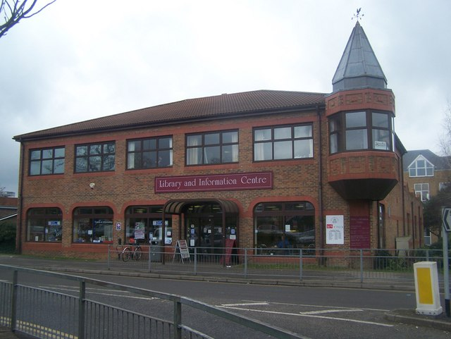 Swanley Library and Information Centre On junction of London Road (in front) and St Mary's Road (unseen on right). Has tourist information, small cafe (windows on right), as well as local library.